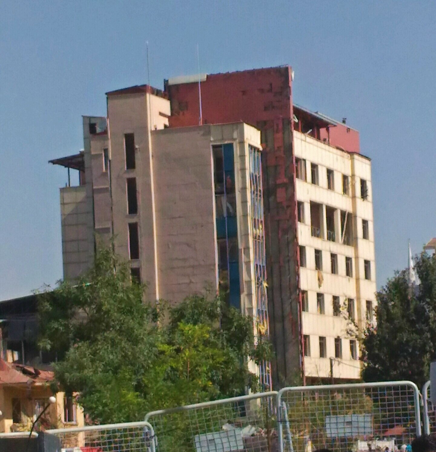 17 August 2016. Police center after PKK attack with bombing car.